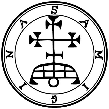 Samigina seal, THE BOOK OF THE GOETIA OF SOLOMON THE KING (1904)